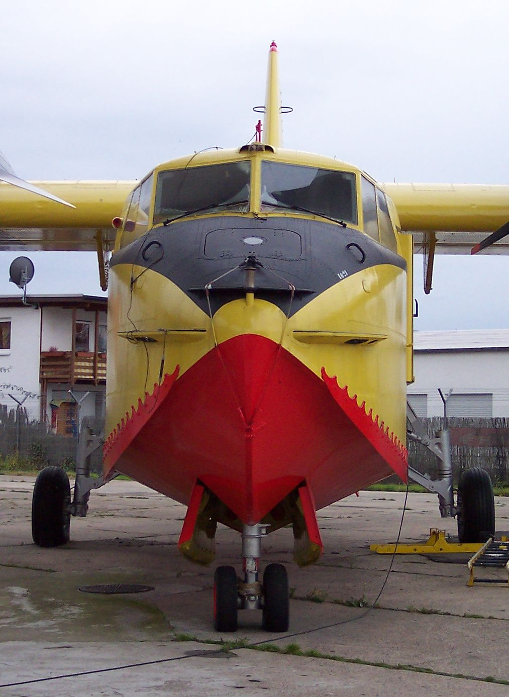 Canadair CL-215